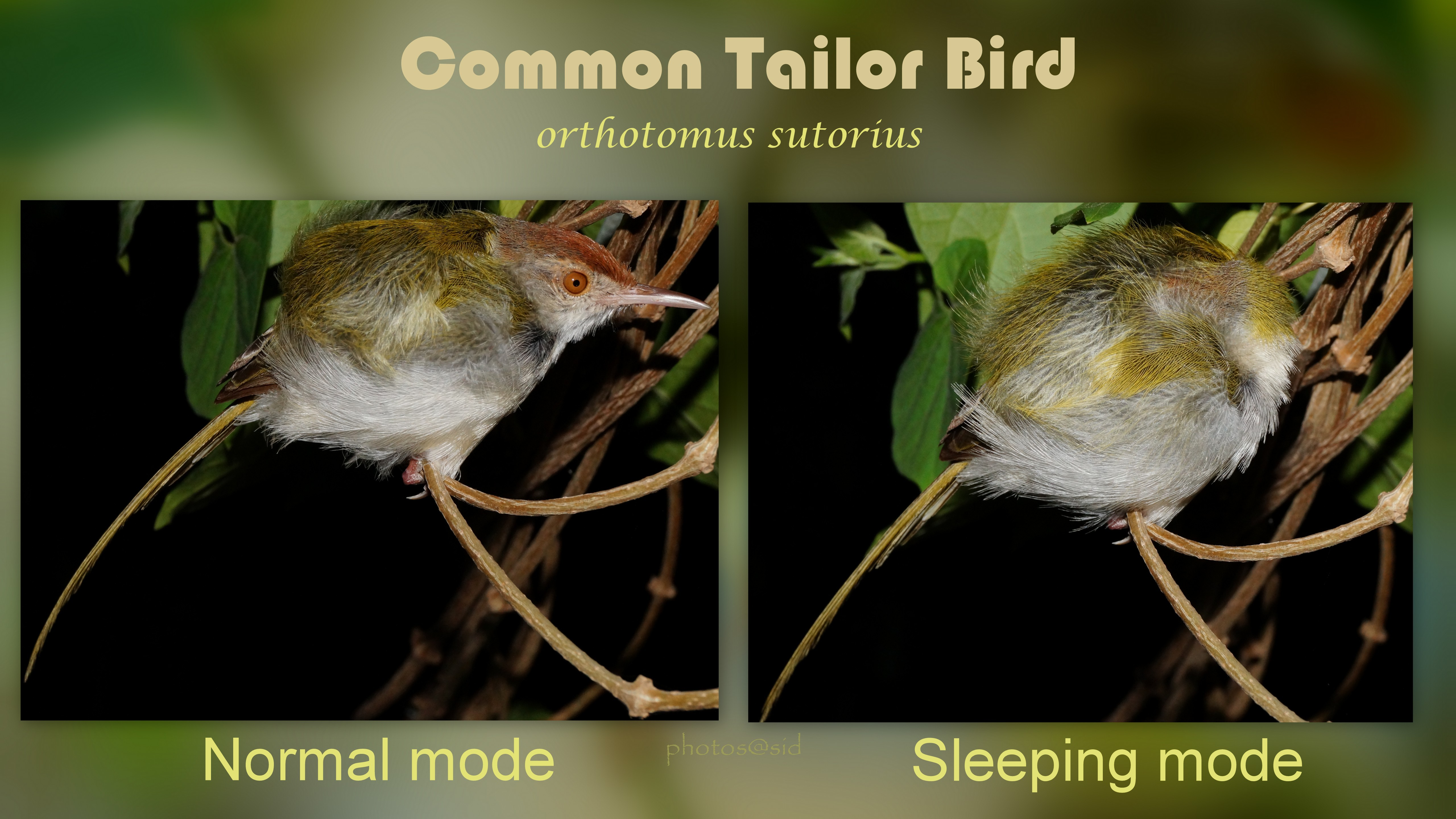 sleeping behaviour of common tailor bir.